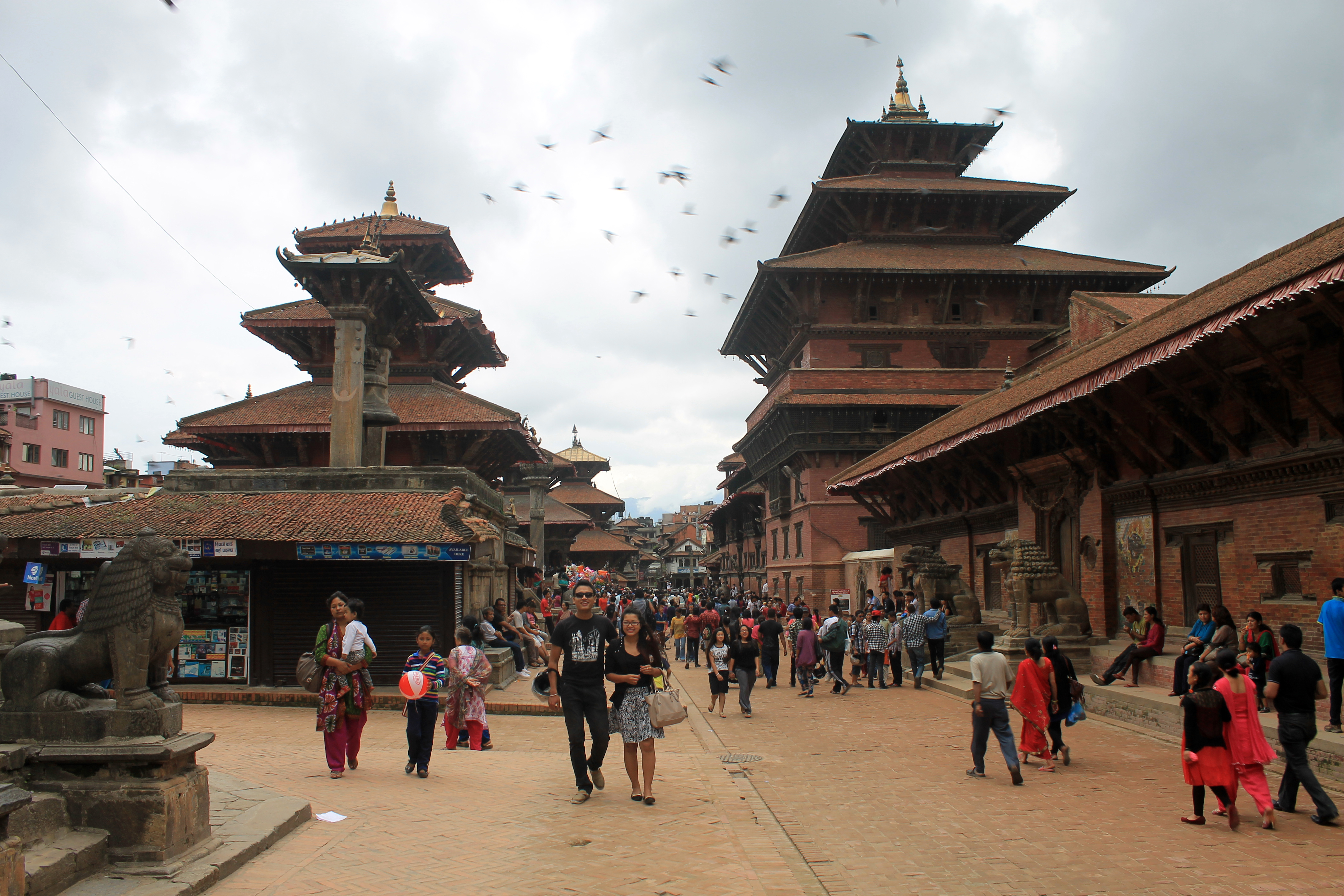 View of the Patan Durbar Square, a World Heritage Site in Kathmandu in Nepal.